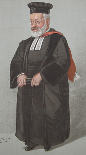 Caricature of Rabbi Dr. Hermann Adler CVO (1839-1911). Caption read "The Chief Rabbi".